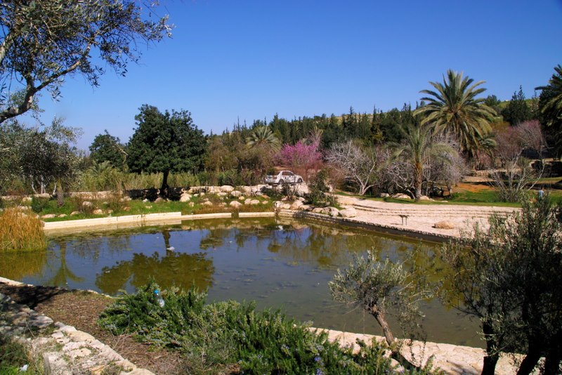 Geography of Canada Park